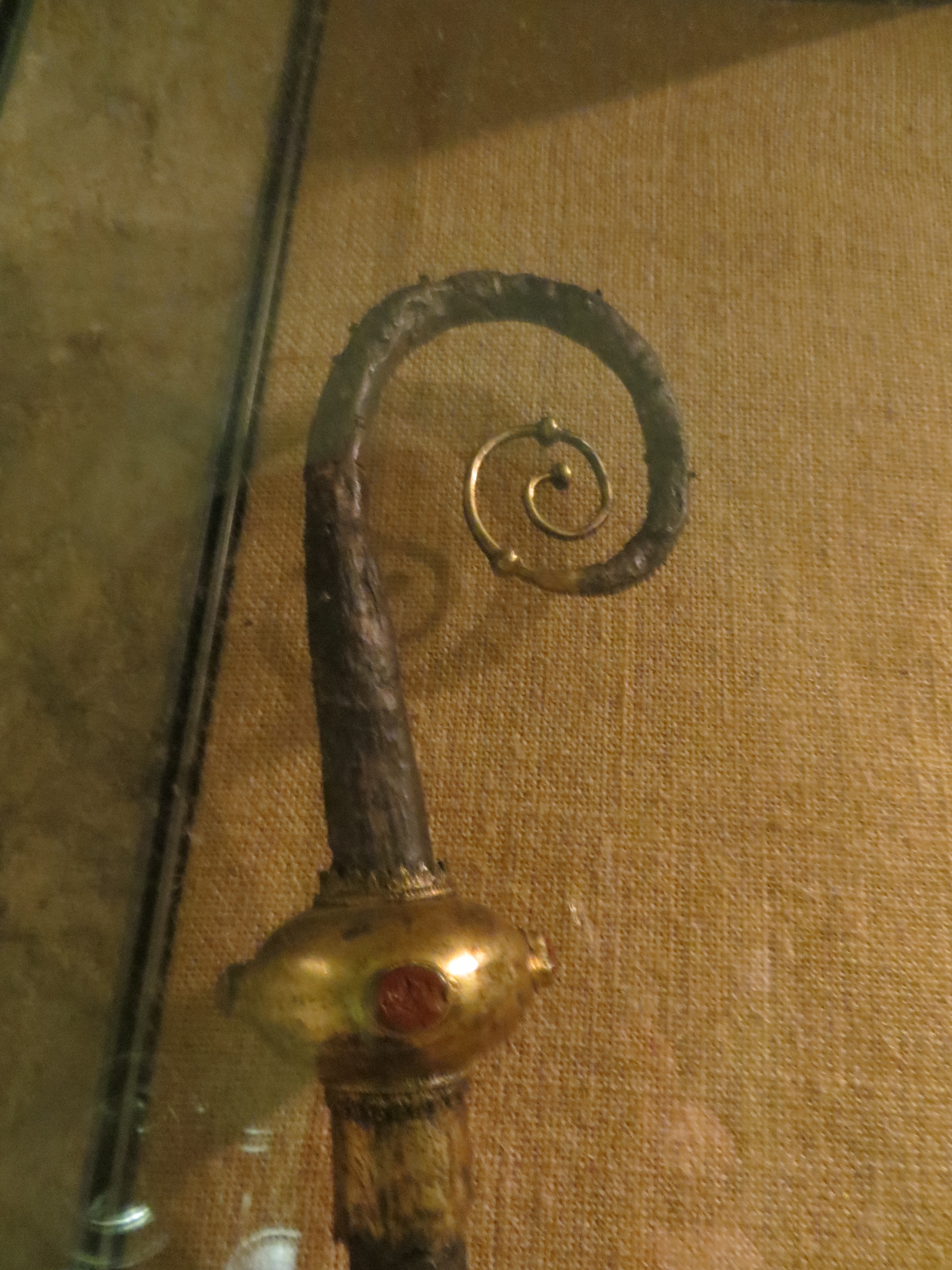 Hubert Walter Crozier Head in Canterbury Cathedral, 1160 AD